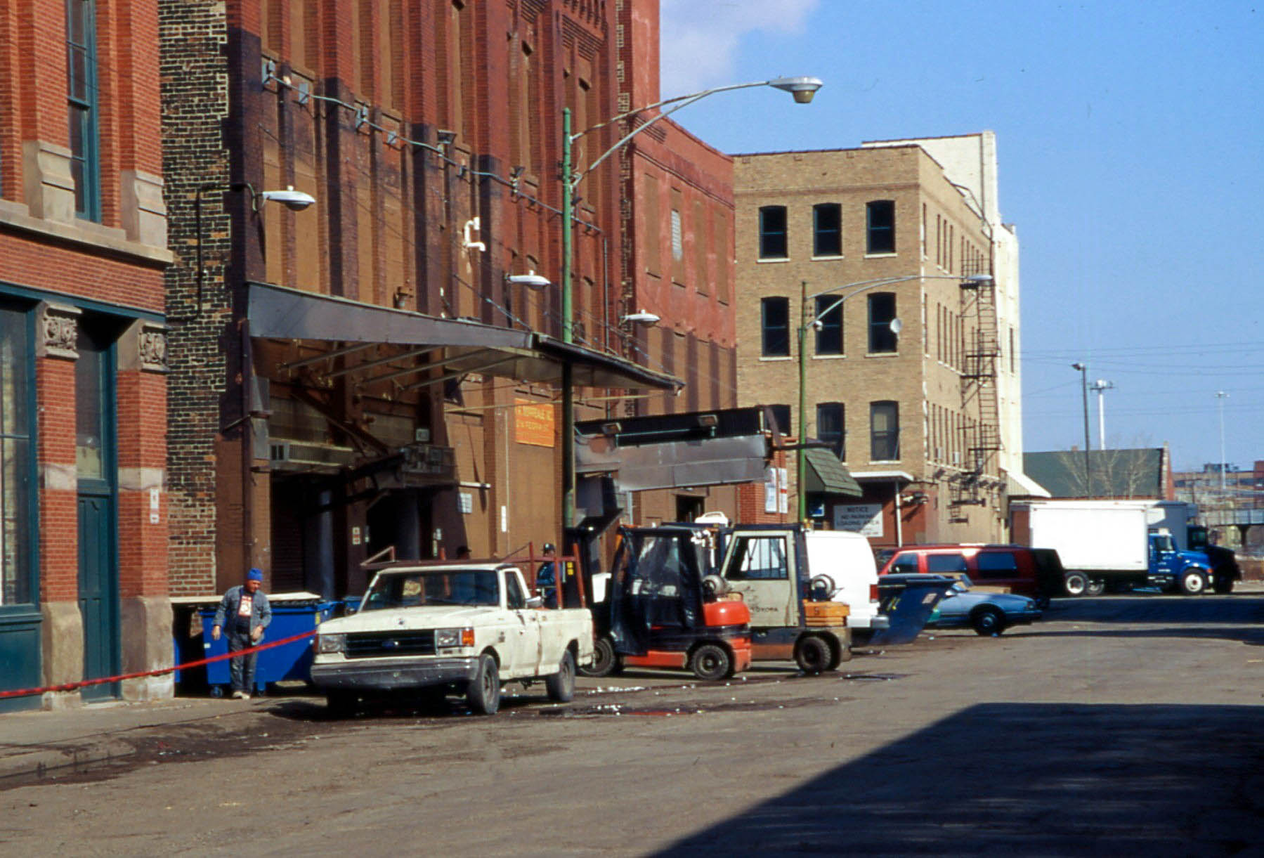 20020420 10 Peoria St. @ Fulton St. Chicago